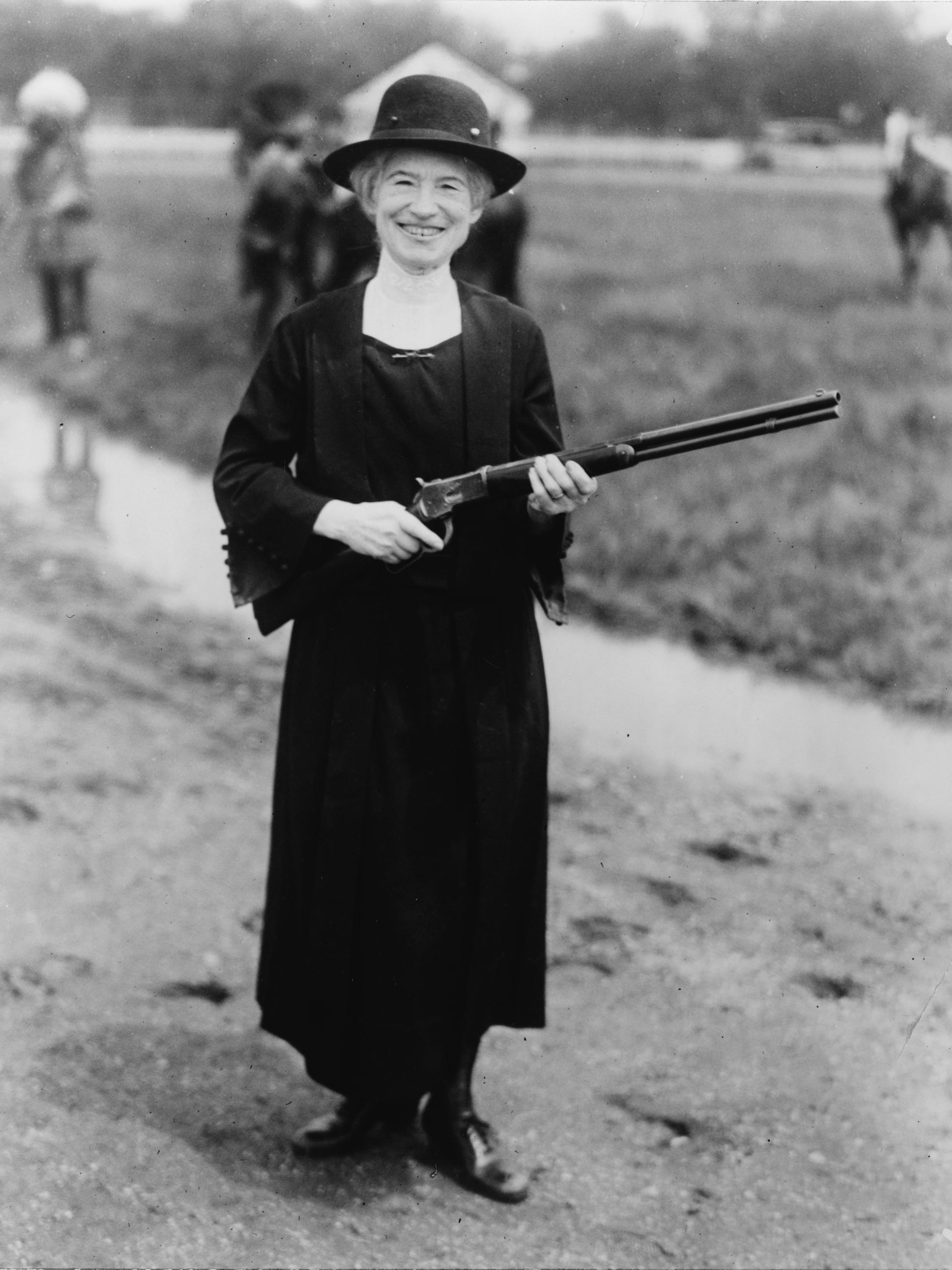 Annie Oakley, with a gun Buffalo Bill gave her